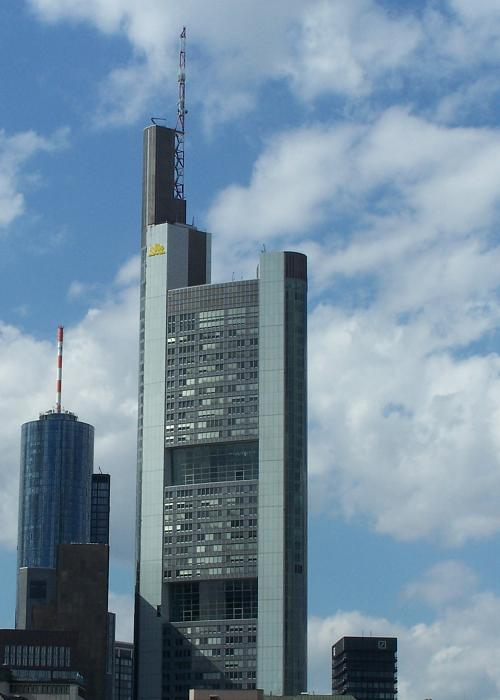 Commerzbank Tower